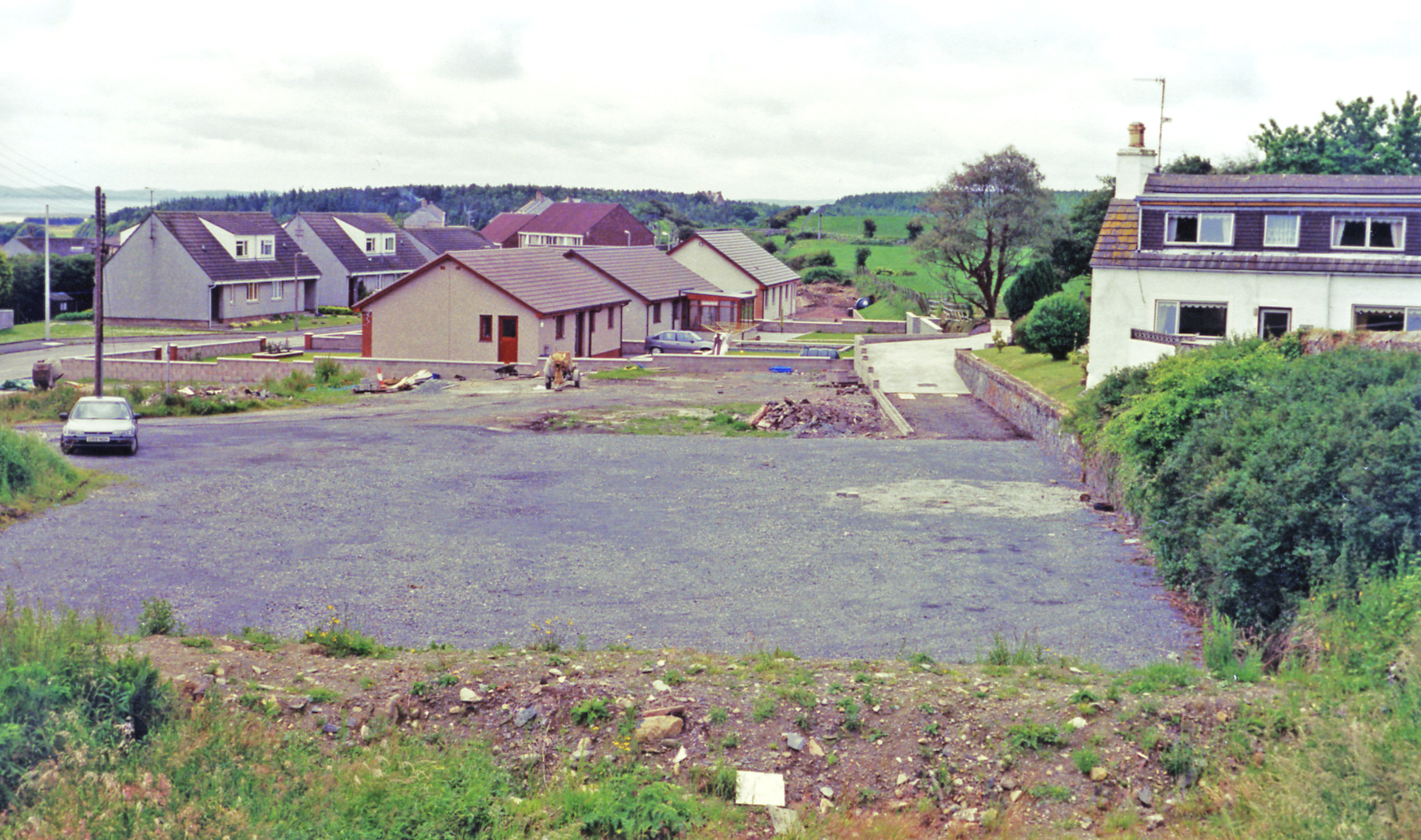 Site of former Glenluce station, 1996. View westward, towards Challoch Junction and Stranraer: ex-Portpatrick & Wigtownshire (Caledonian, G&SWR, LNWR & Midland) Joint Railway, (Dumfries) - Castle Douglas - Challoch Junction - Stranraer main line. The station was closed when the whole line between Dumfries and Challoch Junction was closed on 14/6/65.